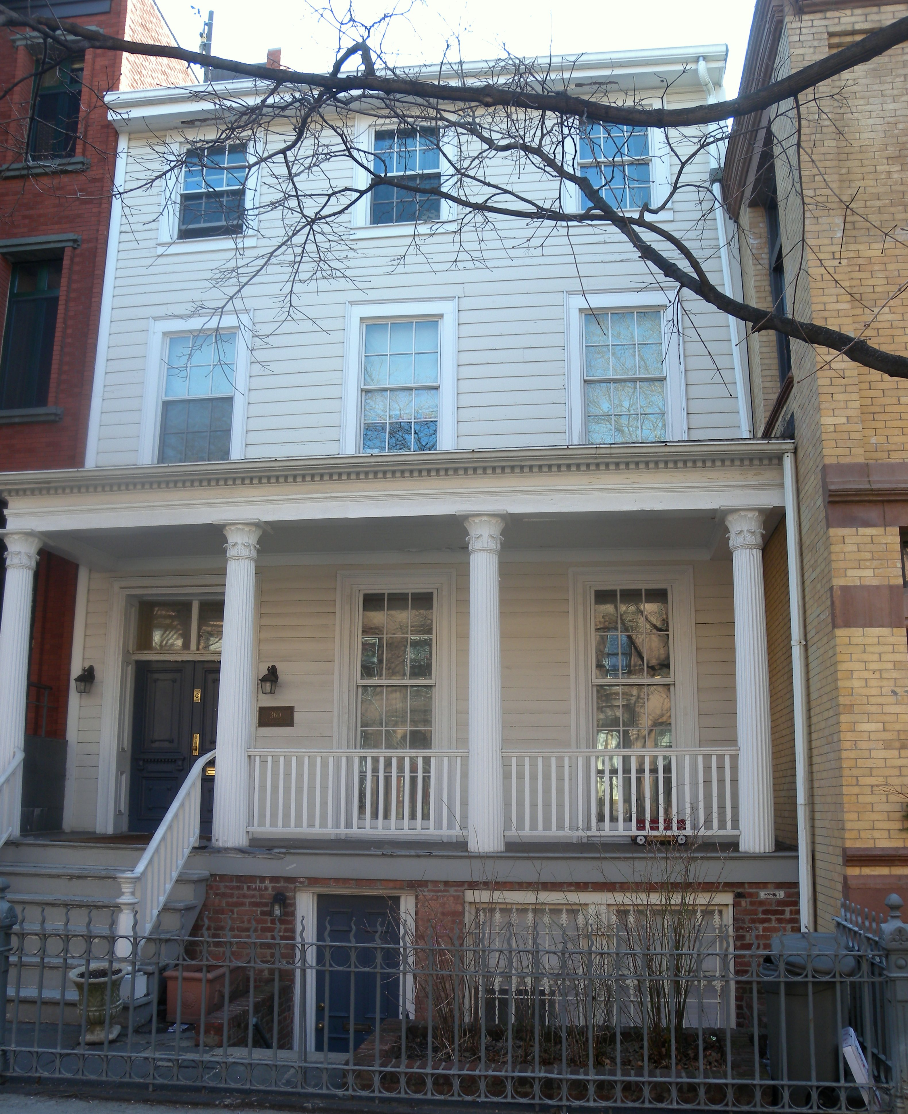 Looking south across pacific Street at Cuyler Memorial parsonage on a sunny afternoon.